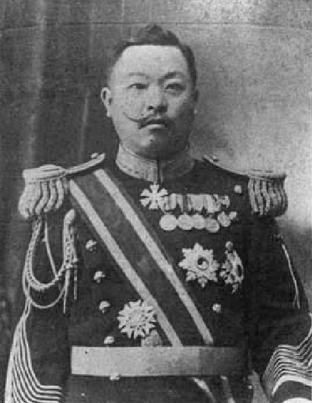 Lee Byeong-mu Portrait